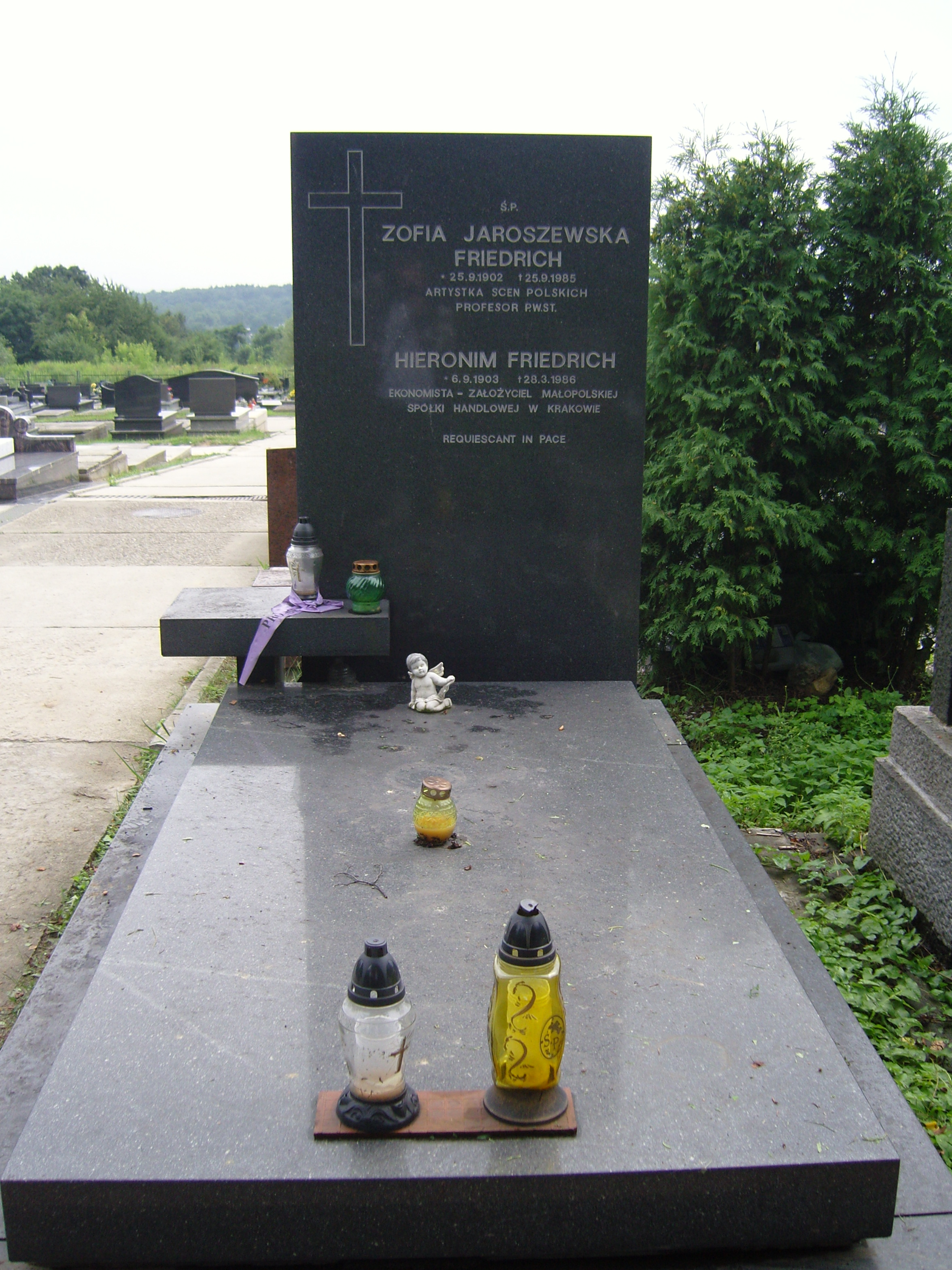 Zofia Jaroszewska's grave